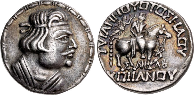 Heraios coin